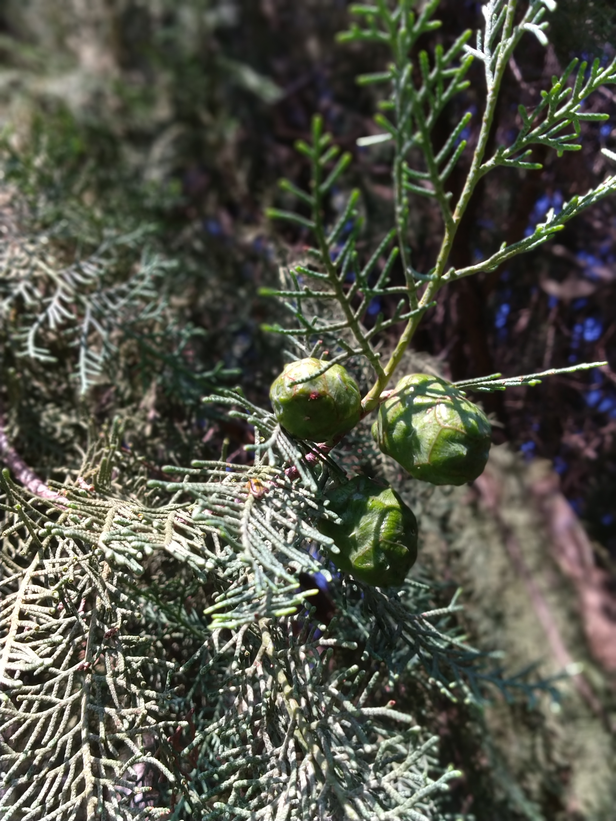 Leaf cone of Cupressus dupreziana